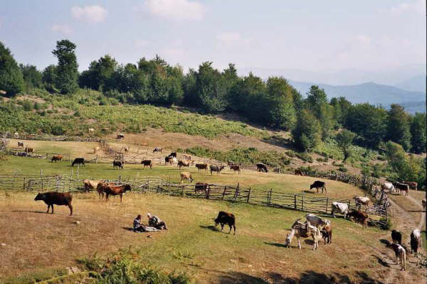 Cows grazing in Verbjan village